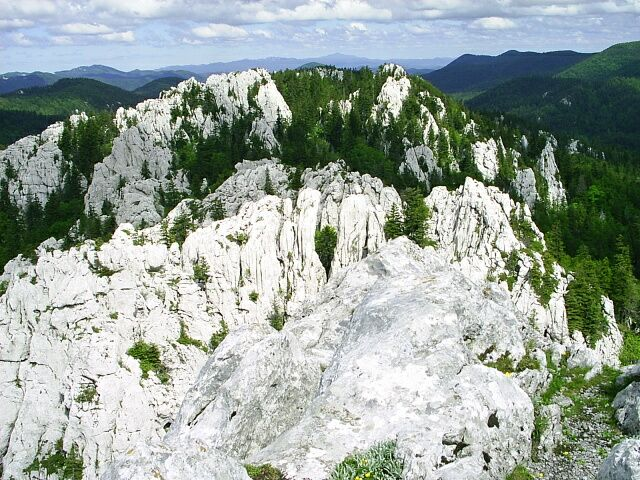 Rock formations in the Bijele i Samarske stijene natural reserve, Croatia